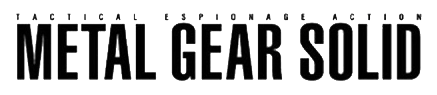 Logo from the Konami's Metal Gear series.